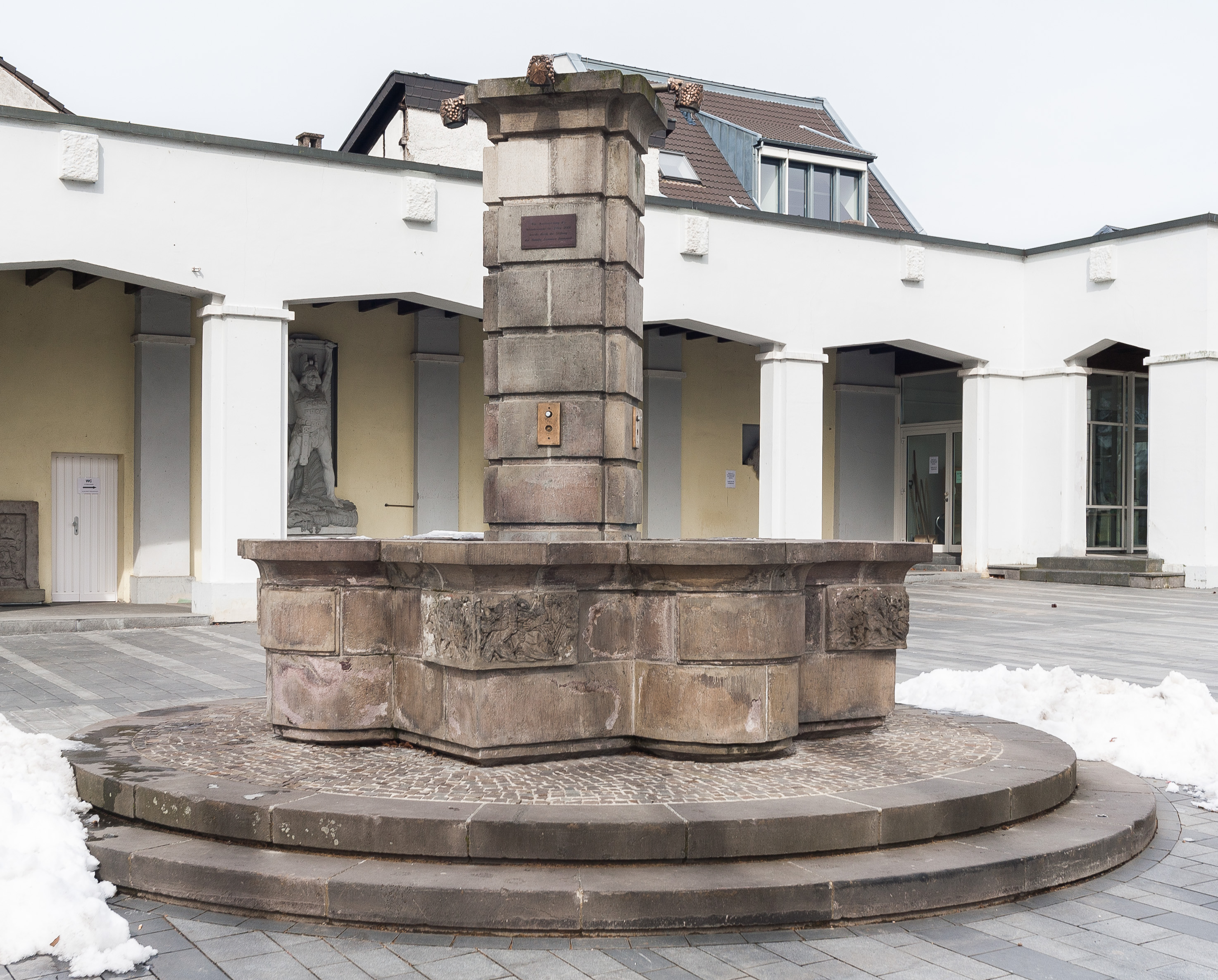 Heritage protected „Weinbrunnen“ („wine fountain“) in front of old townhall (established in the year 1938, relief panels of the year 1939), close to Drachenfelsstraße 5–7, Königswinter